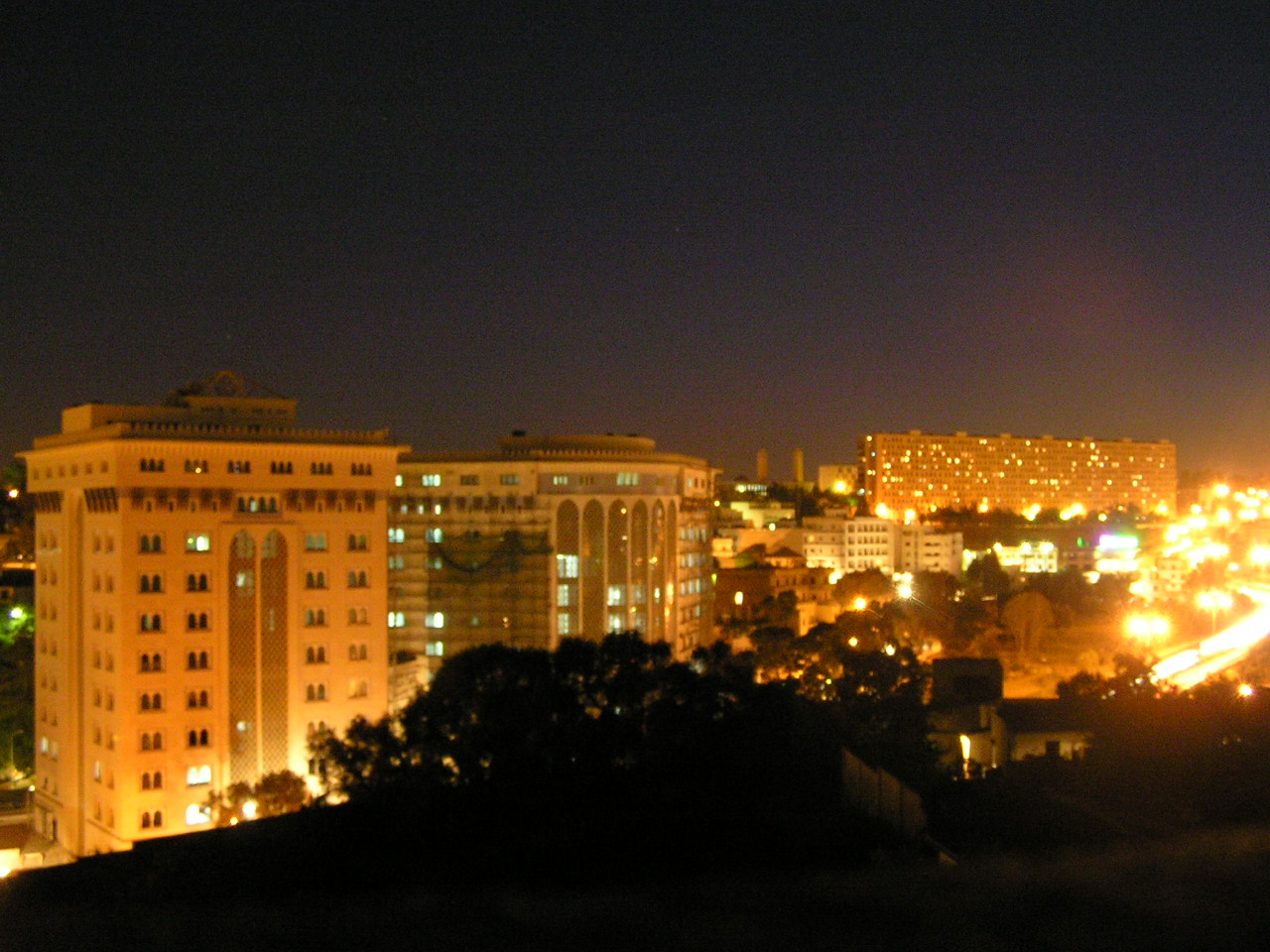 El Biar, Algiers, Algeria.2005-08-06_21h44_47